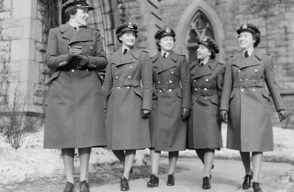 We see five women uniformed soldiers of the Air Force.